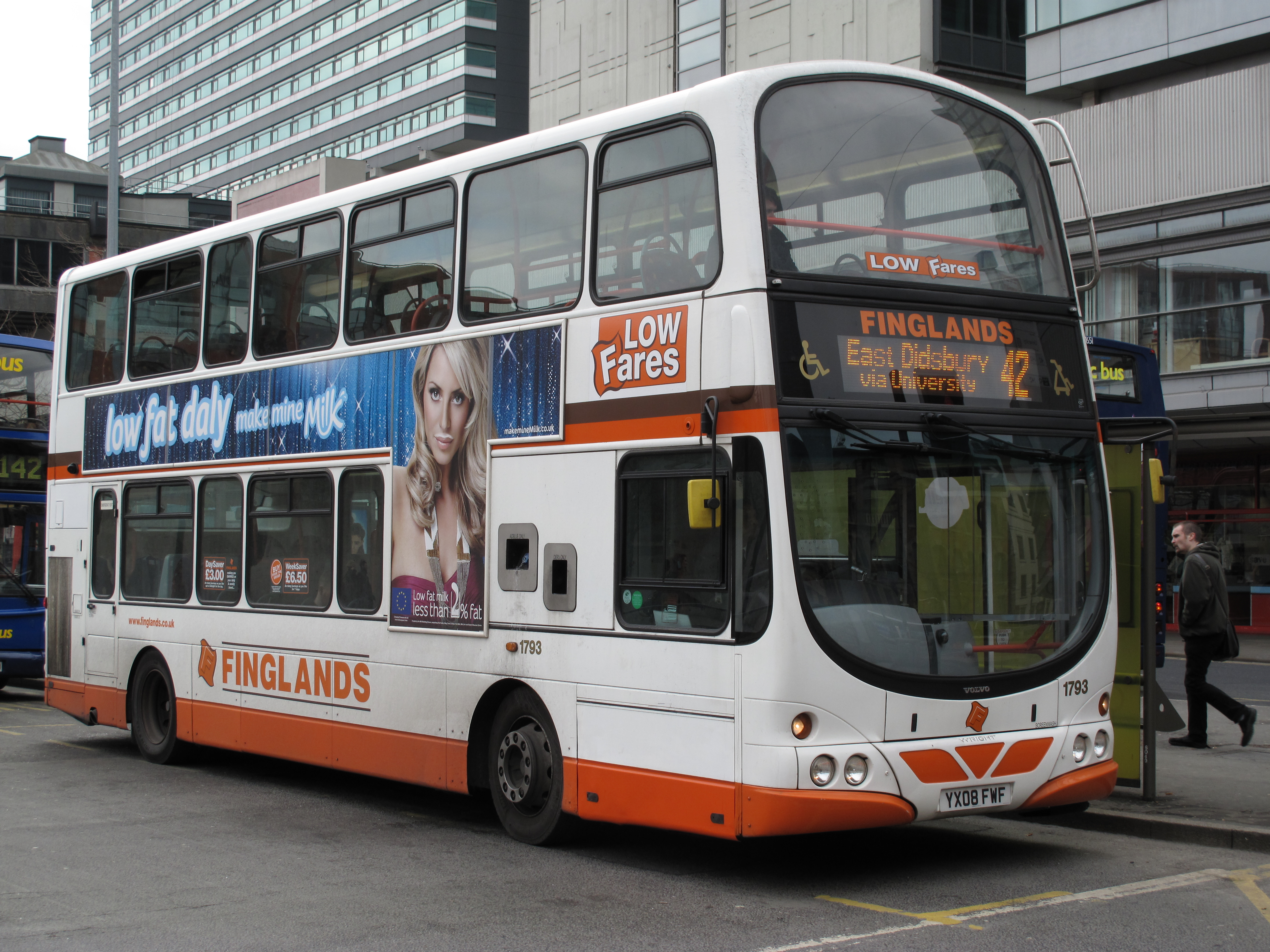 Fingland Volvo / Wright Gemini in Manchester.